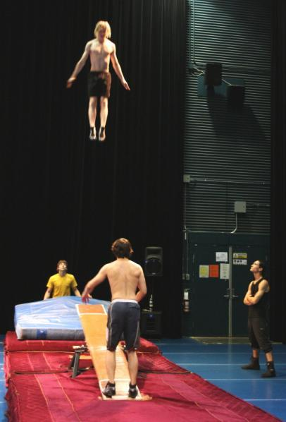 teeterboard, korean plank, planche